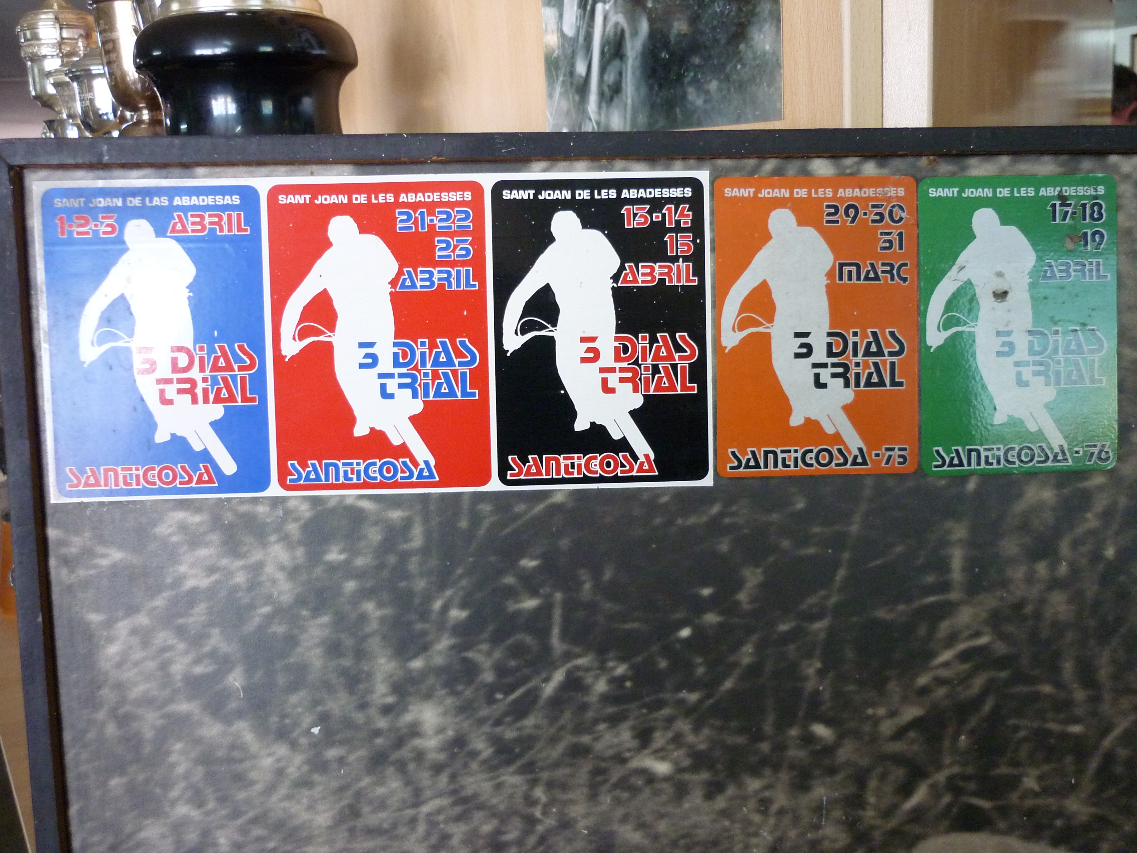 Tres Dies de Trial de Santigosa 1972 to 1976 logos. The first 5 editions of the event.Isern Motorcycle Museum, Mollet del Vallès (Catalonia).